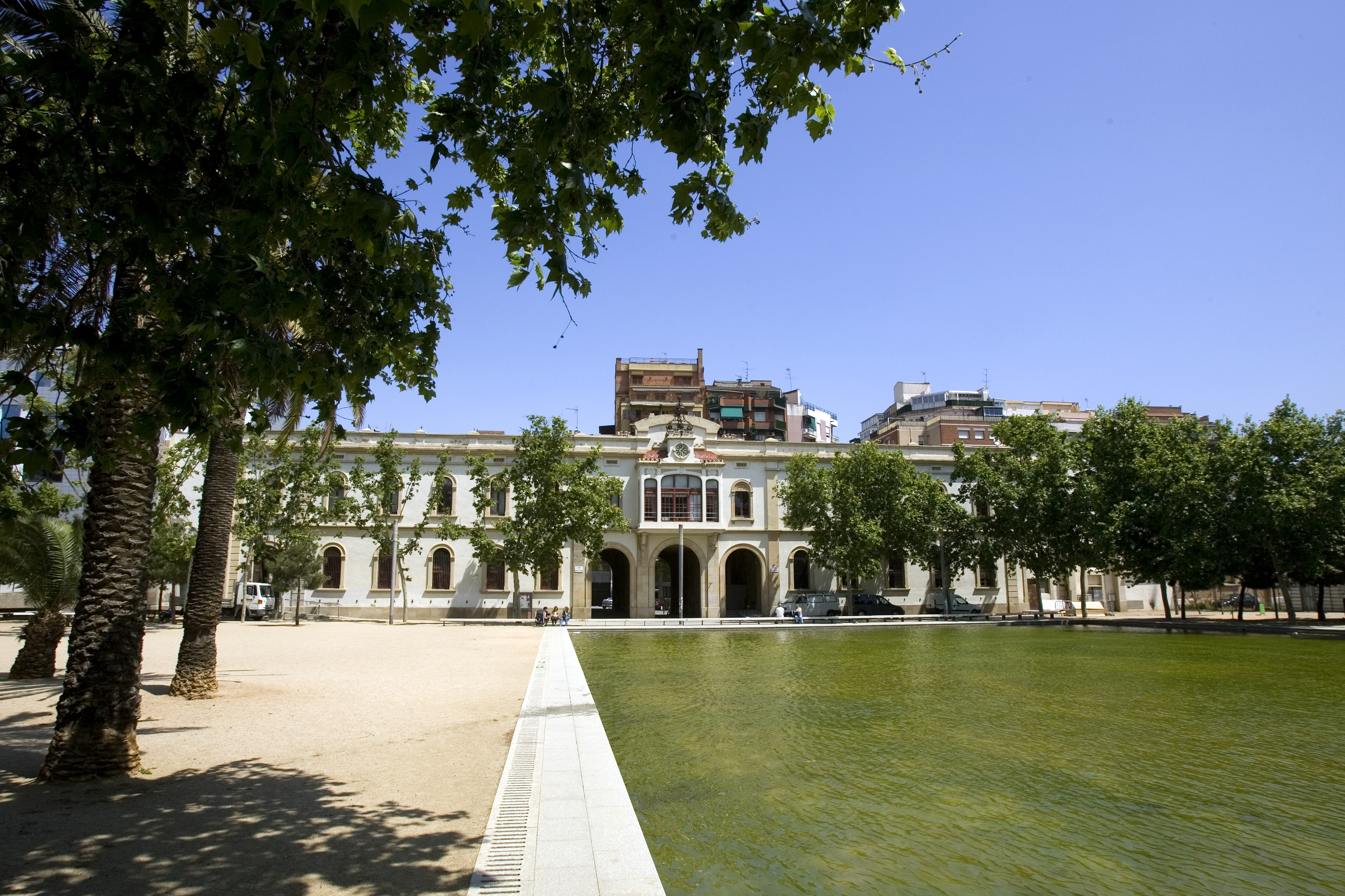 Historical Routes at the Horta-Guinardó District Administration in Barcelona This image was provided to Wikimedia Commons by the Horta-Guinardó District Administration in Barcelona as part of an ongoing cooperative project with Amical Viquipèdia. English | +/−